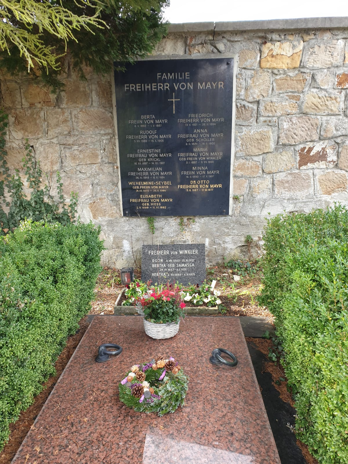 Family Mayrs grave in Tullnerbach